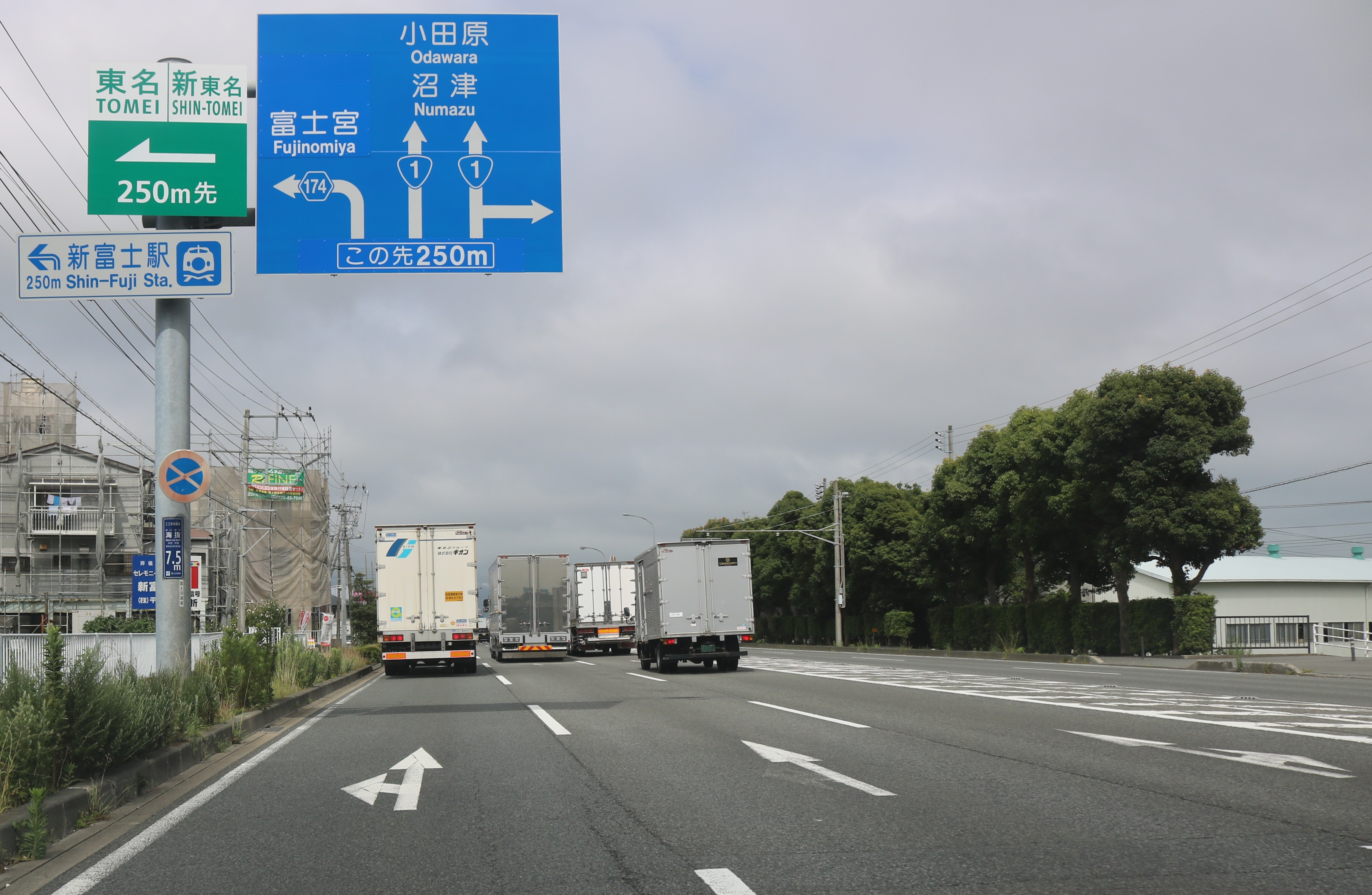 Fujiyui Bypass (Route 1) in Kawanarijima, Fuji, Shizuoka Prefecture, Japan.